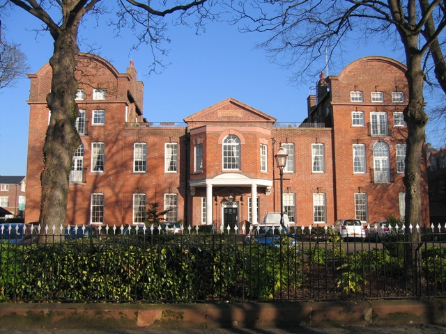 Chester Royal Infirmary The former Chester Royal Infirmary building, which faces City Walls Road, is now a prestigious apartment block. The hospital was built in 1761 and was closed in 1993, whereafter the extensive site was sold for housing.